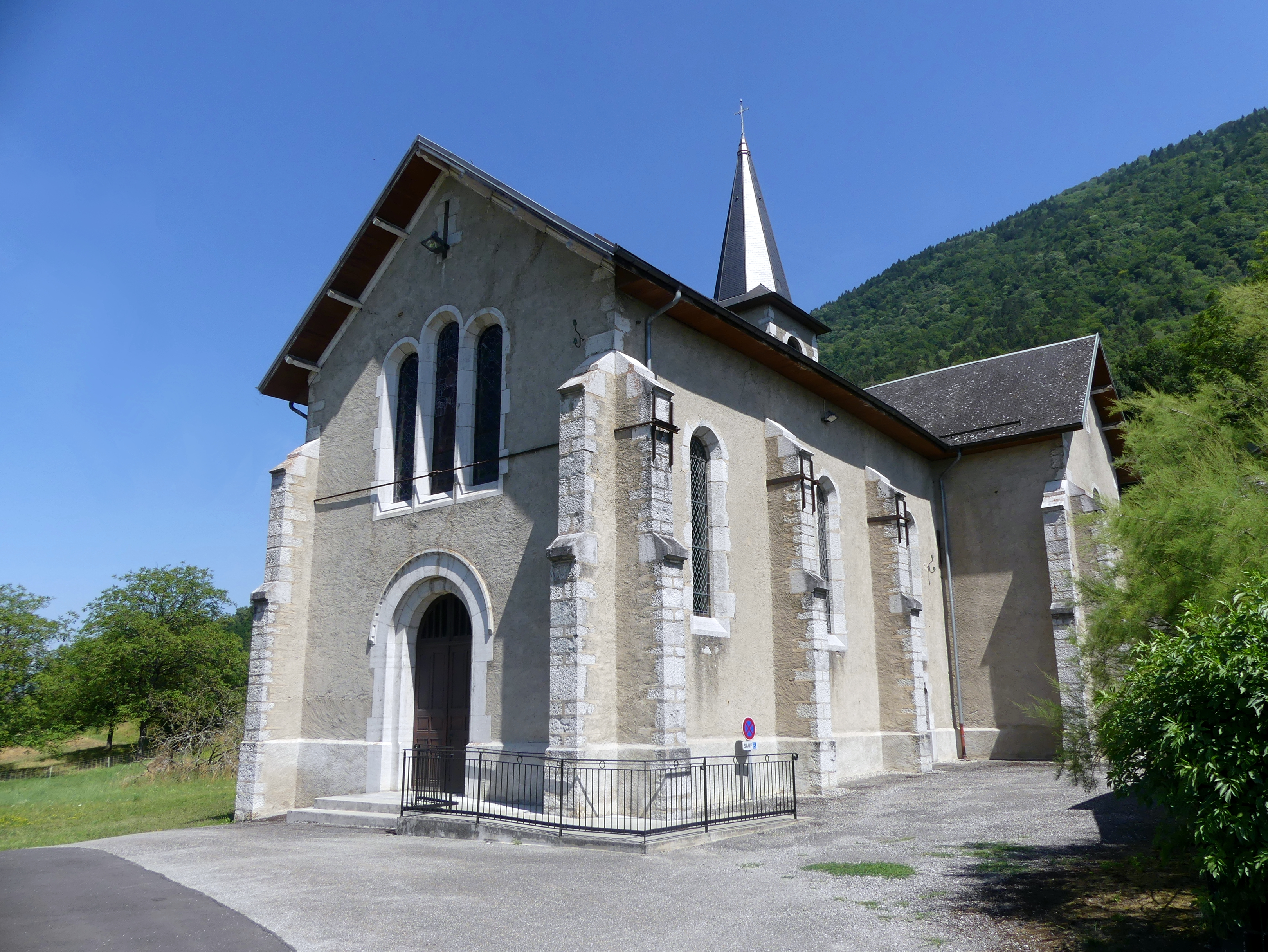 Sight of Saint-Pierre et Saint-Paul church of Villard-Léger, in Savoie, France.